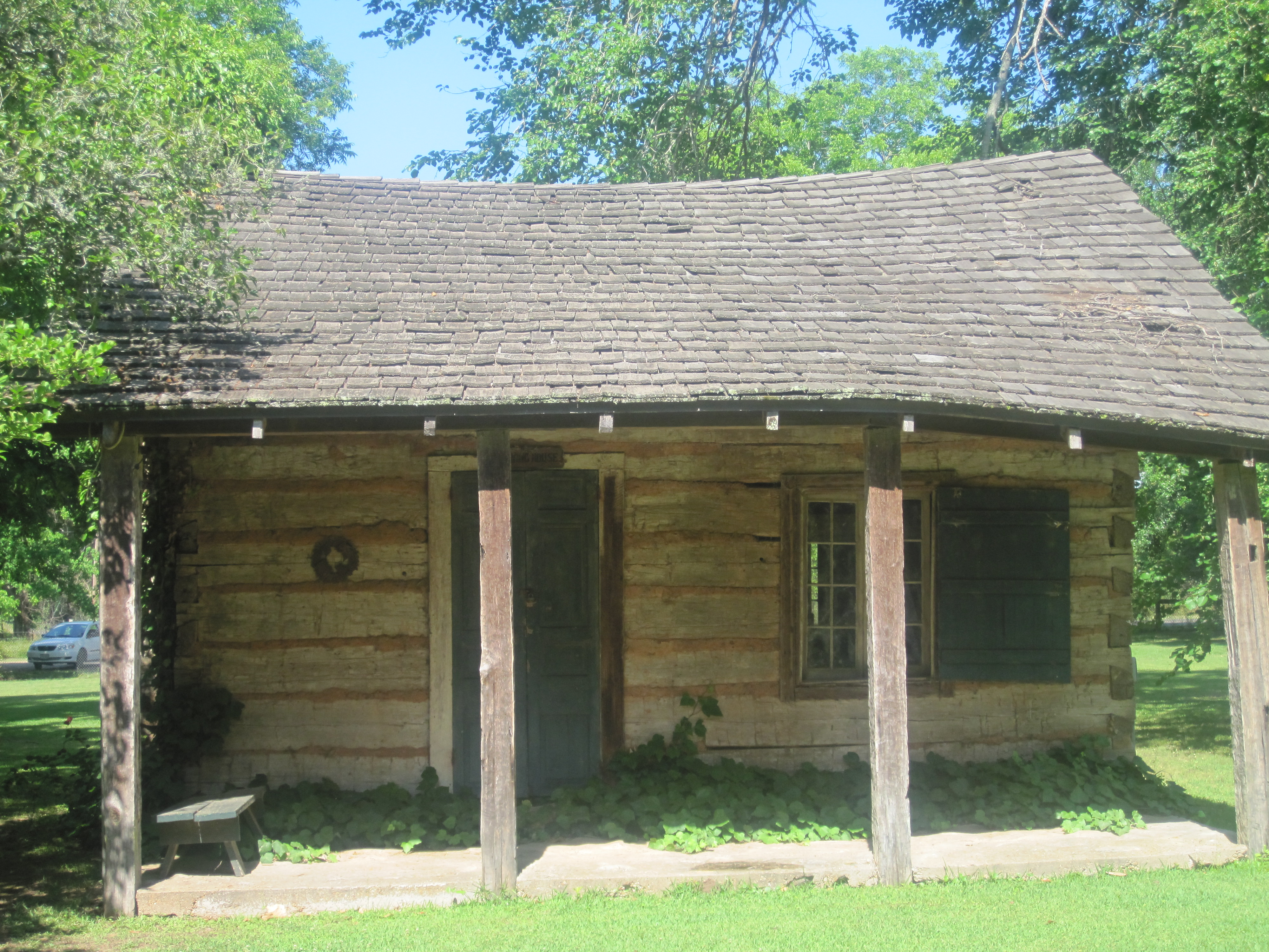 Log Creole cottage on Melrose Plantation — in Natchitoches Parish, Louisiana. Former residence of plantation worker and renowned folk artist Clementine Hunter (1886−1988), an African American artist of folk art paintings depicting plantation life in the early 20th century. Hunter painted the Melrose Plantation murals in the the "African House" building on the plantation. Credits I took photo with Canon camera.